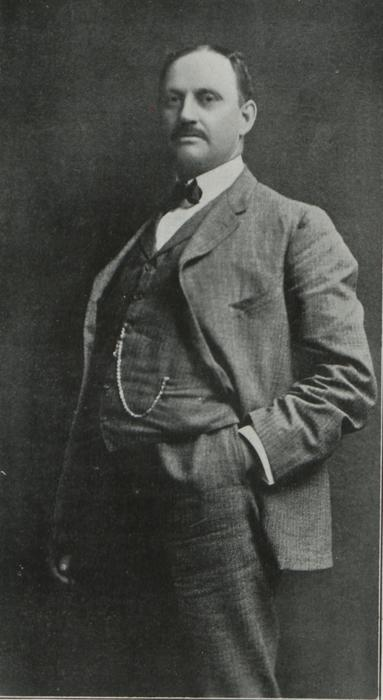 David H. McConnell, founder, CPC & Avon Products, Inc. Hagley Museum and Library.